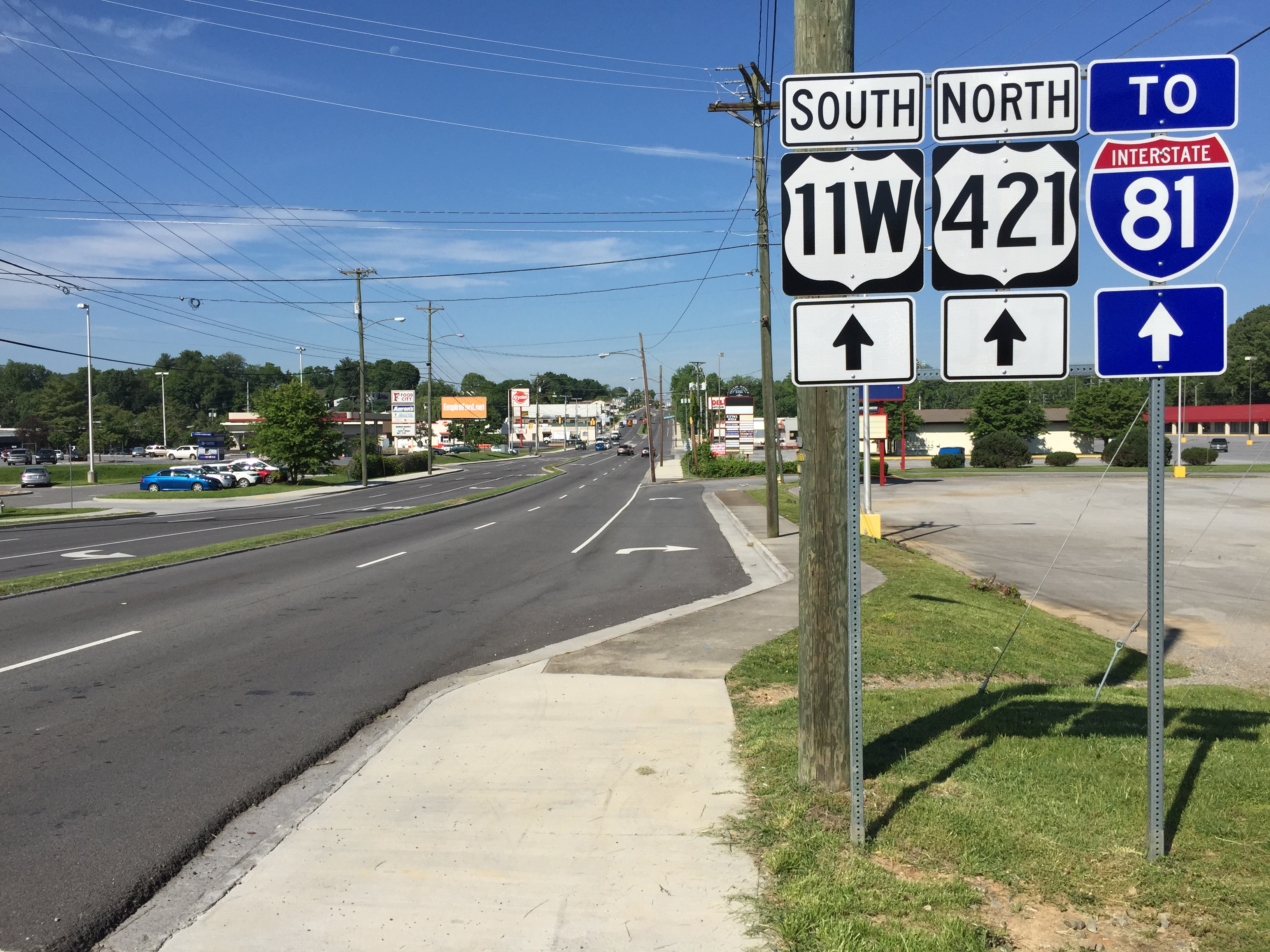 View south along U.S. Route 11W and north along U.S. Route 421 (Euclid Avenue) at U.S. Route 11E, U.S. Route 19 and Virginia State Route 381 (Commonwealth Avenue) in Bristol, Virginia